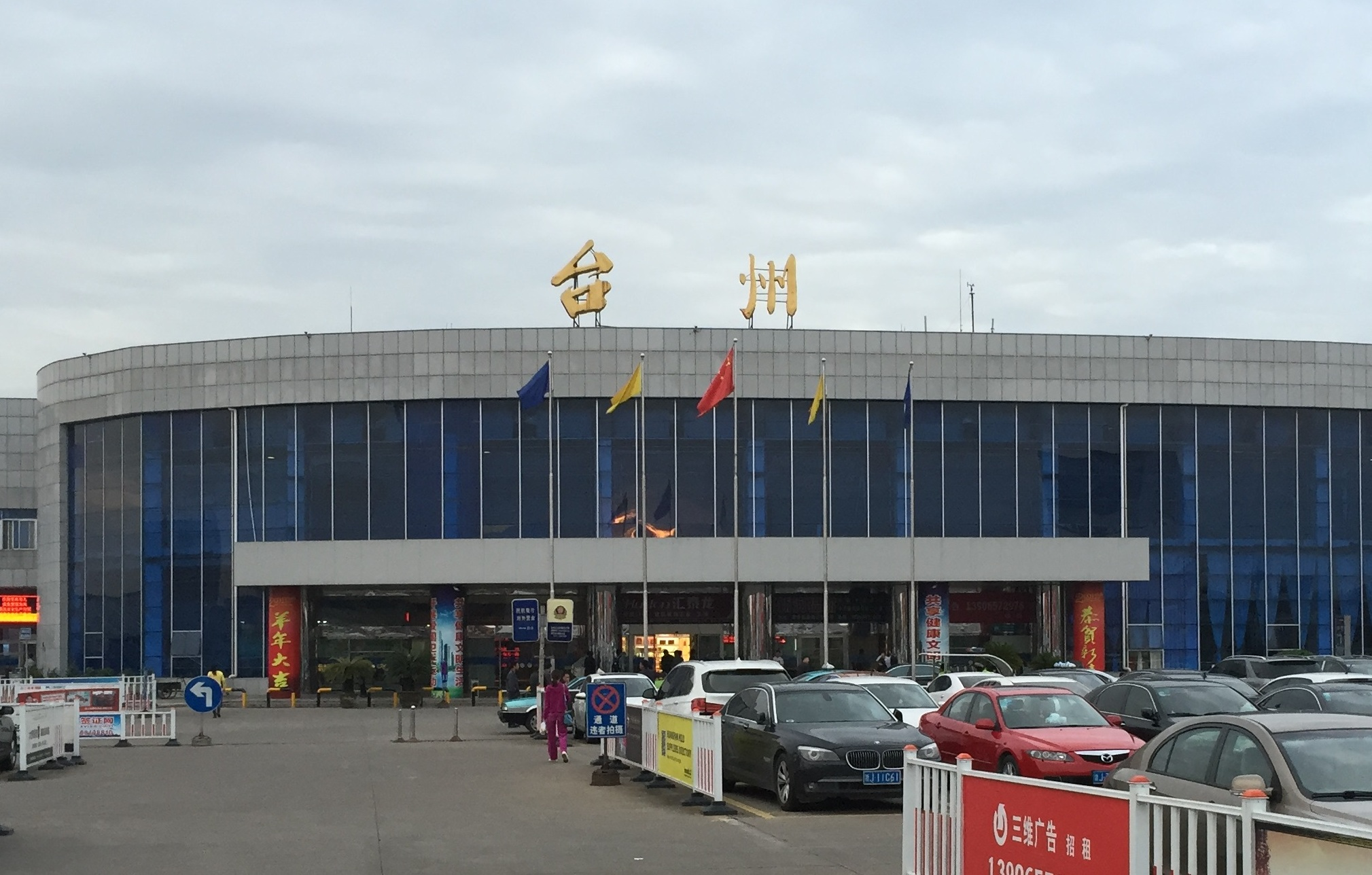 Taizhou Luqiao Airport on 25 April 2015